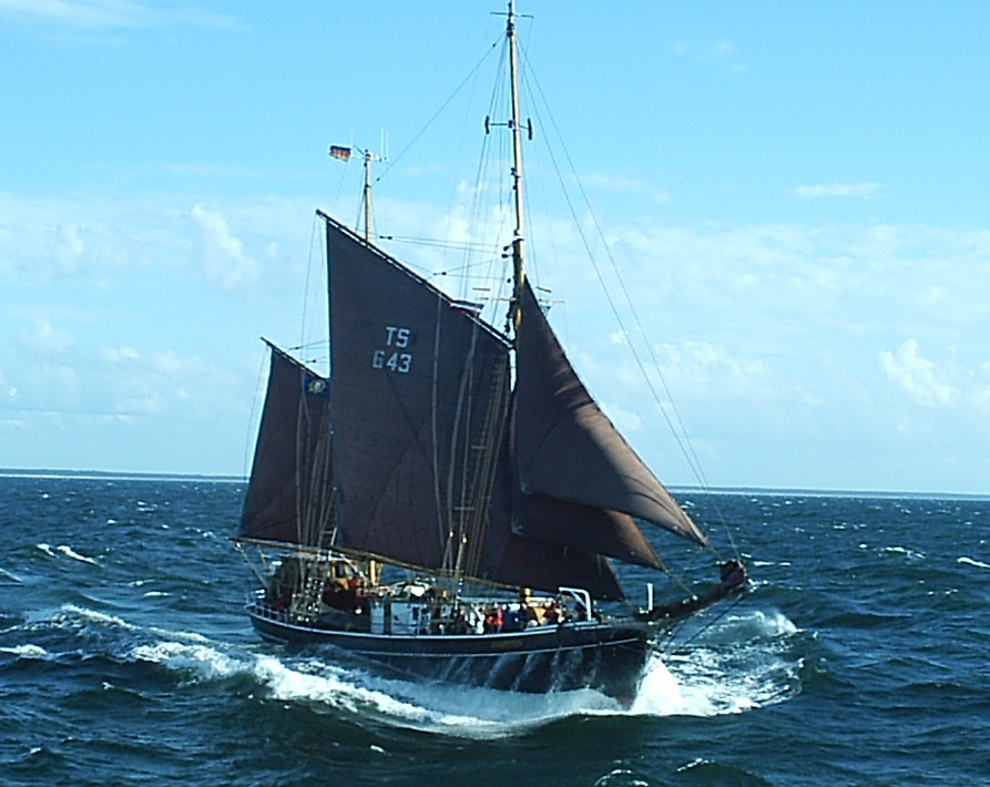 German ketch Seute Deern during the Tall Ships' Races